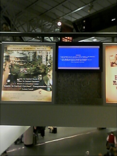 I (User:mcornelius) took this picture at Nashville International Airport on February 19 2007 and release this picture to the public domain.